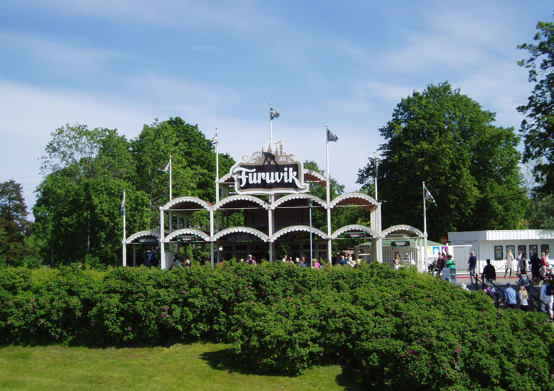 Furuvik Zoo, entrance